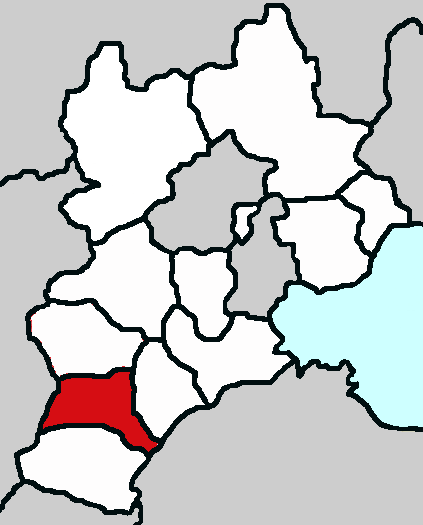 Xingtai city of Hebei province,China. Made by myself